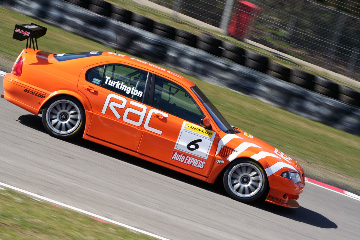 Colin Turkington driving an MG at the Brands Hatch round of the 2006 British Touring Car Championship.